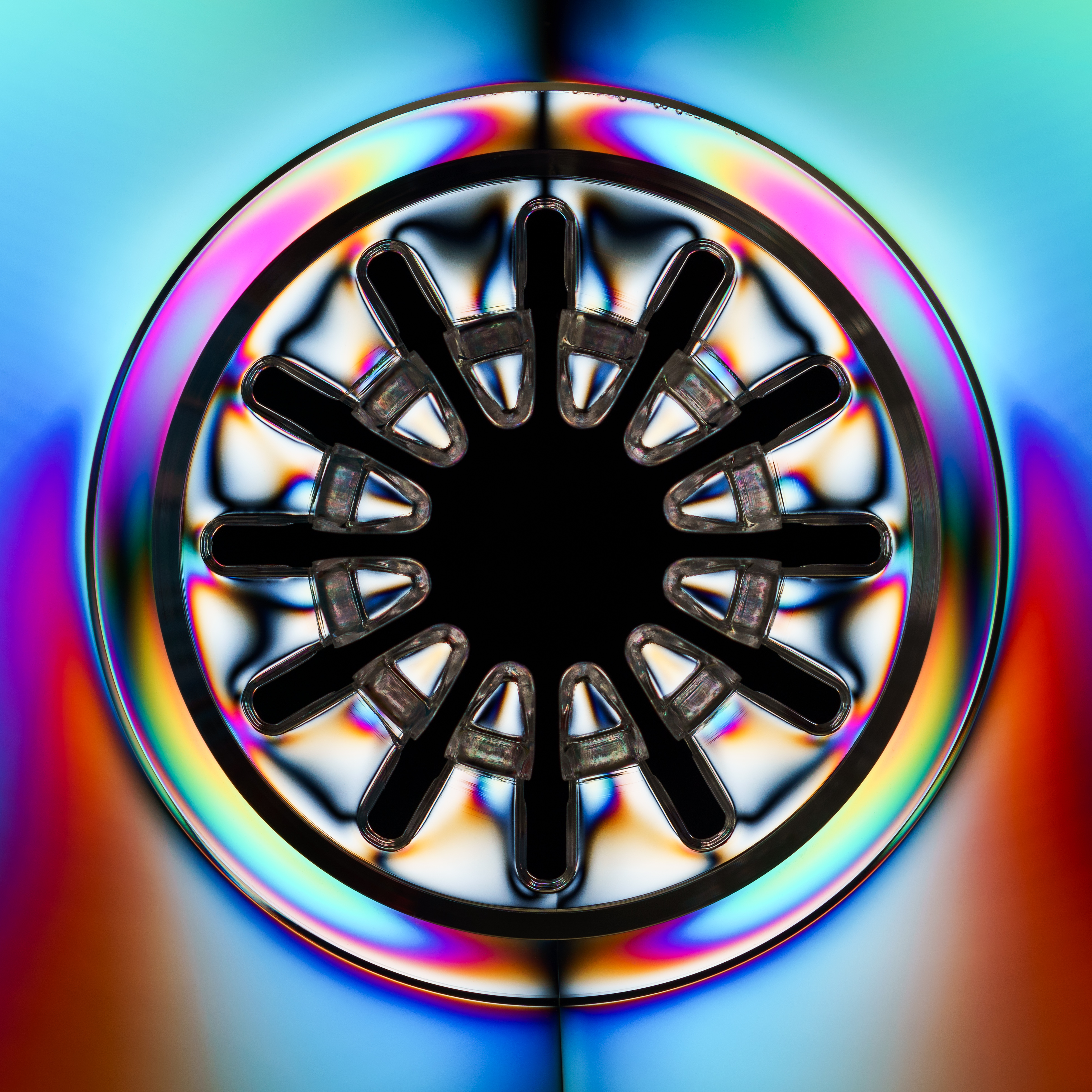 The centre of a clear CD case. The plastic is birefringent and demonstrates internal stress as coloured patterns (photoelasticity) when photographed using cross polarisation. The vertical black line at the bottom is a small crack that developed when the CD was removed from the case.